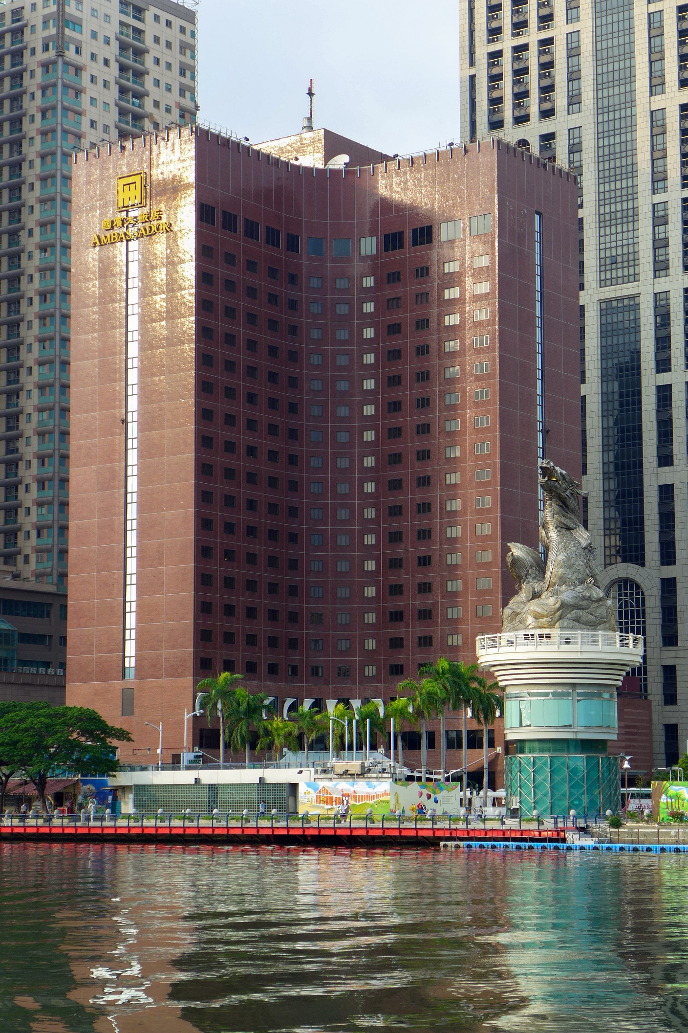 Ambassador Hotel Kaohsiung